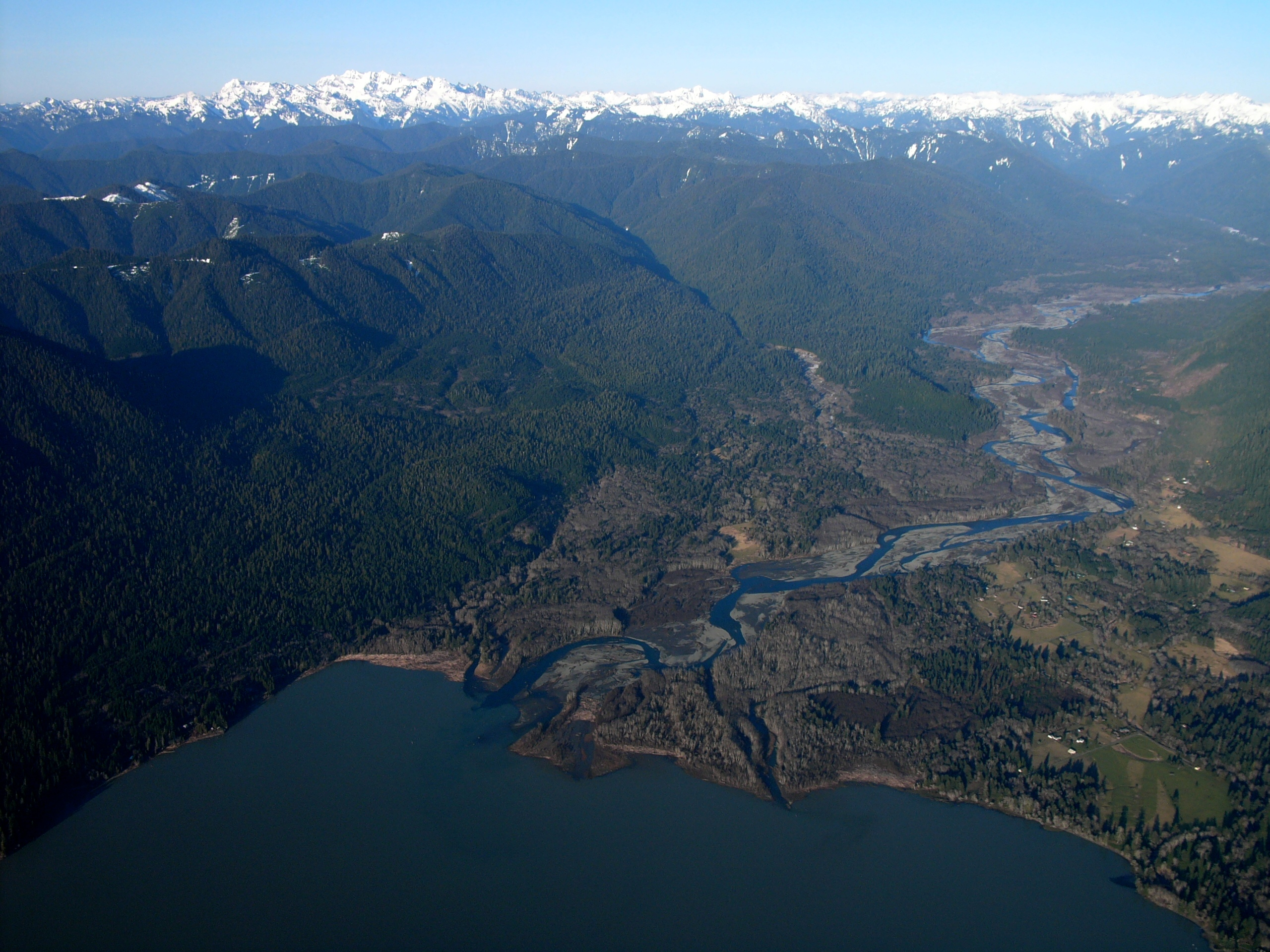 Quinault River emptying into Lake Quinaul in the state of Washington, USA. The Olympic Mountains are seen in the background.